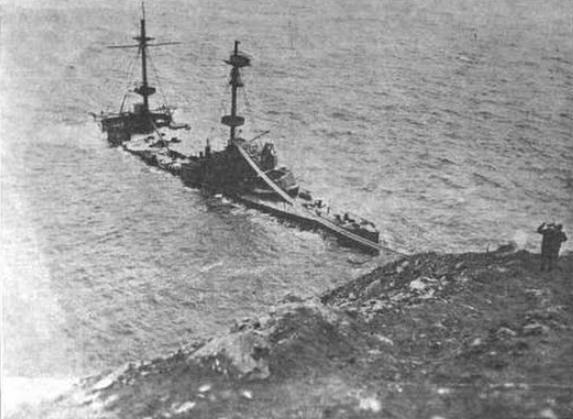 British battleship HMS Montagu, aground off Lundy Island c. 1907.